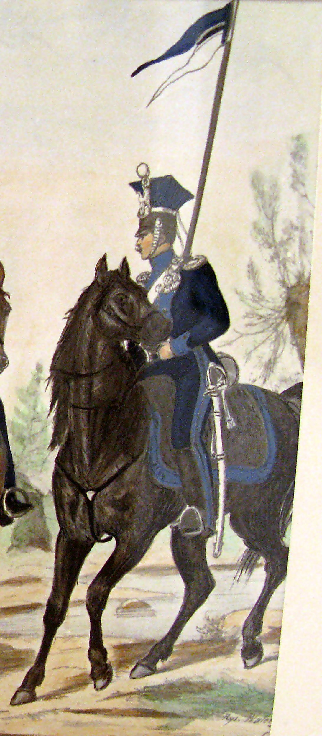 4th Uhlan Regiment of Polish Army of November Uprising